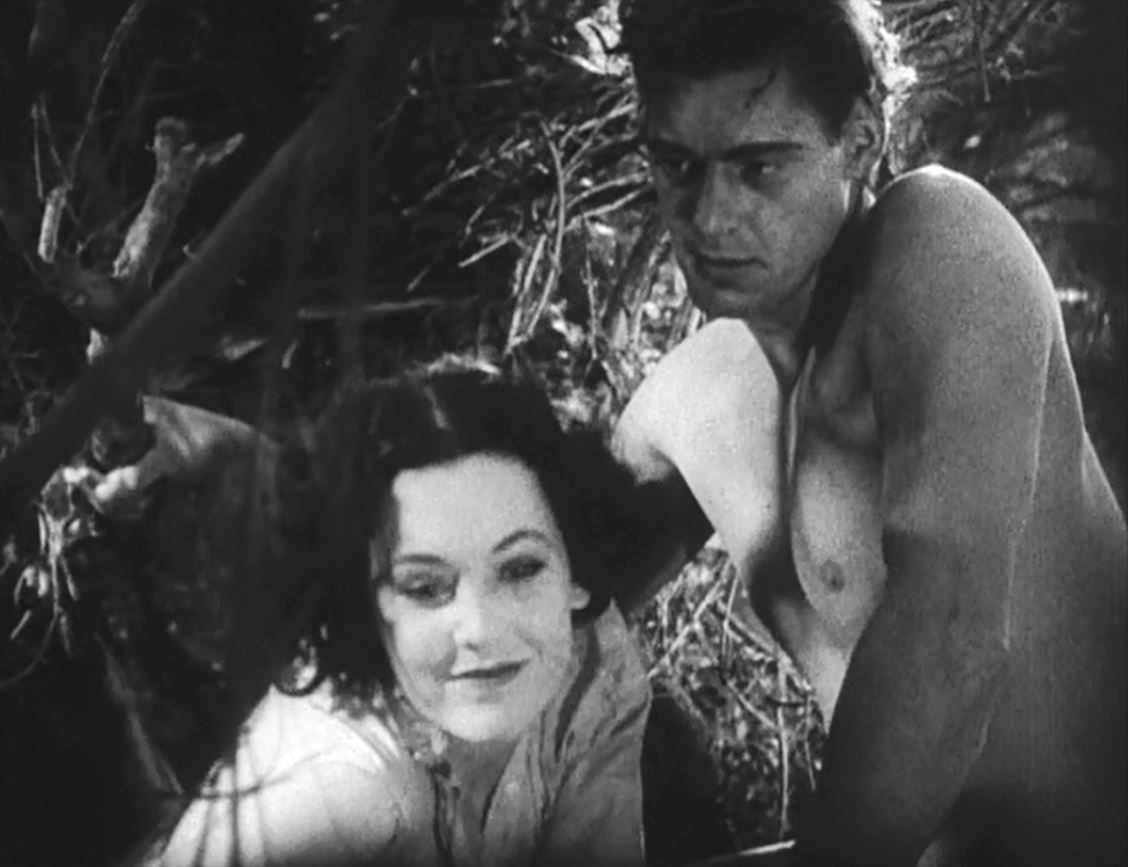 Low resolution screenshot from the public domain trailer for the film Tarzan the Ape Man (1932) with Maureen O'Sullivan as Jane Parker and Johnny Weissmuller as Tarzan.